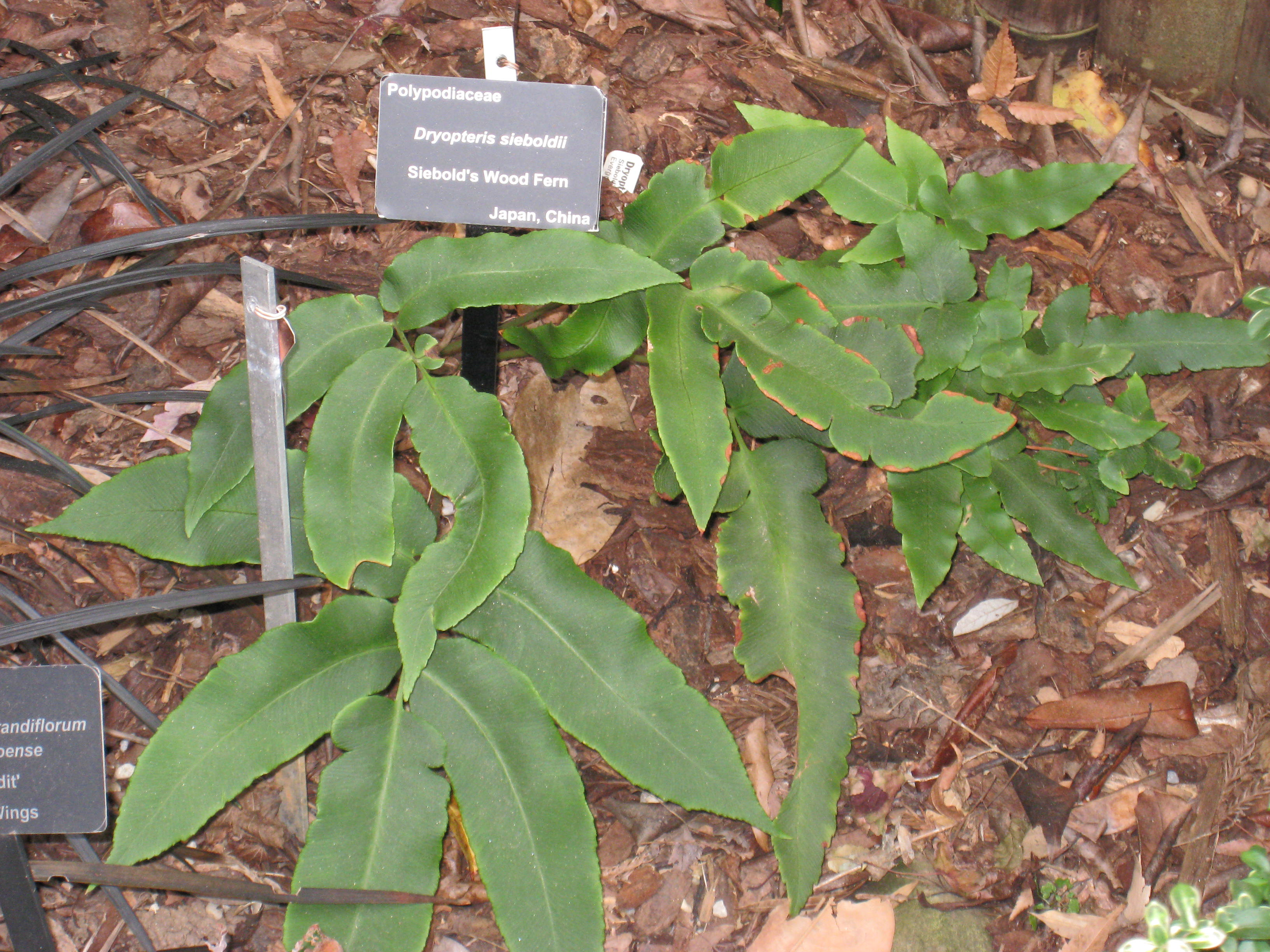 Dryopteris sieboldii. Specimen in the Atlanta Botanical Garden, Atlanta, Georgia, USA.